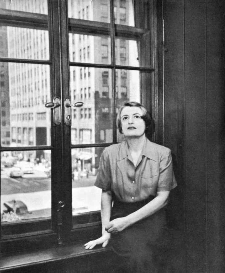 Photo portrait of Russian-American writer Ayn Rand used for the first-edition back cover of her novel Atlas Shrugged (1957).